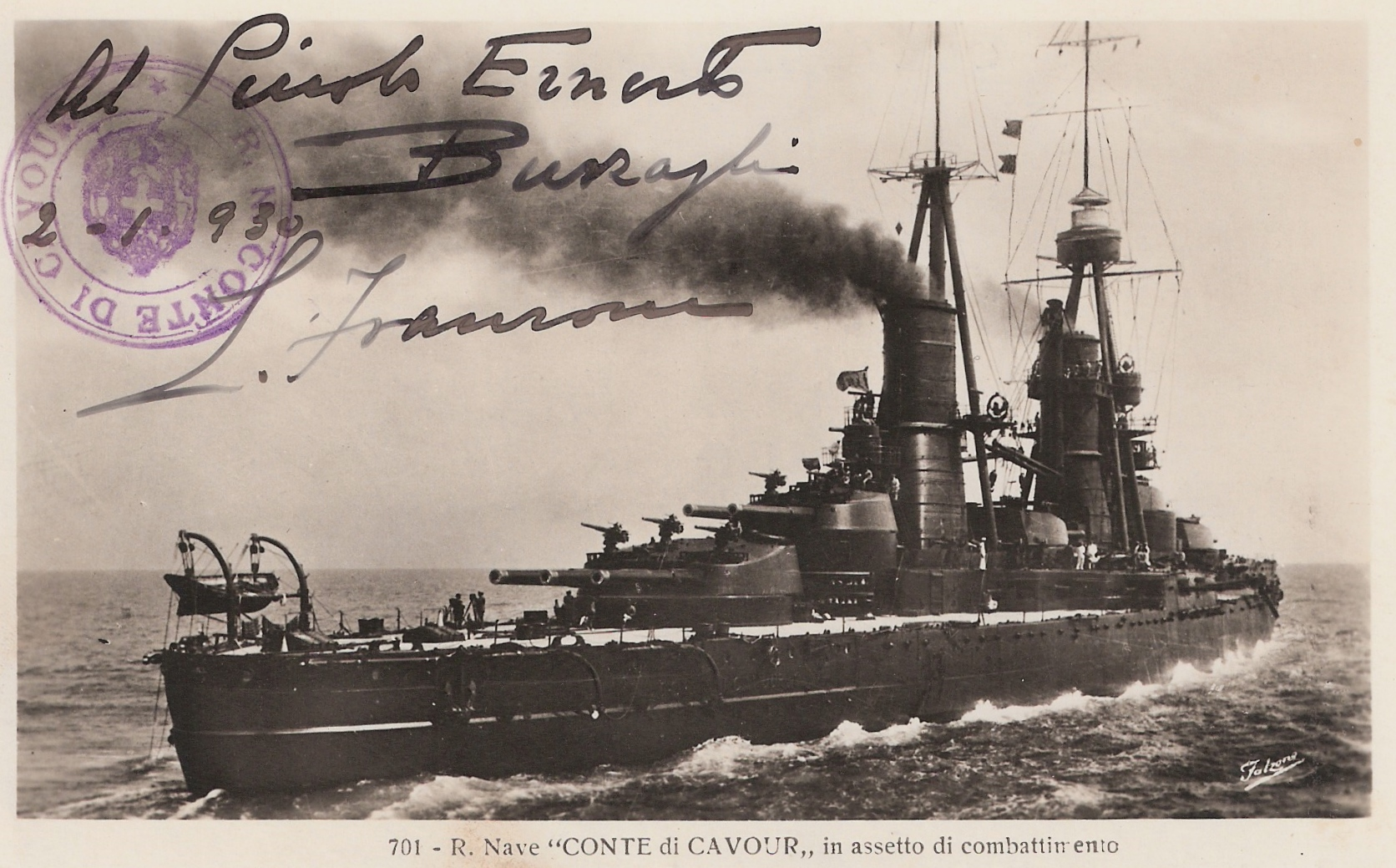 "H. M. ship "Conte di Cavour". Picture signed by "Falzone", dedicted to Italian admiral Ernesto Burzagli (1873-1944). The original picture, scanned by Emiliano Burzagli, belongs to the Private archive of Burzaghi family, Italy.